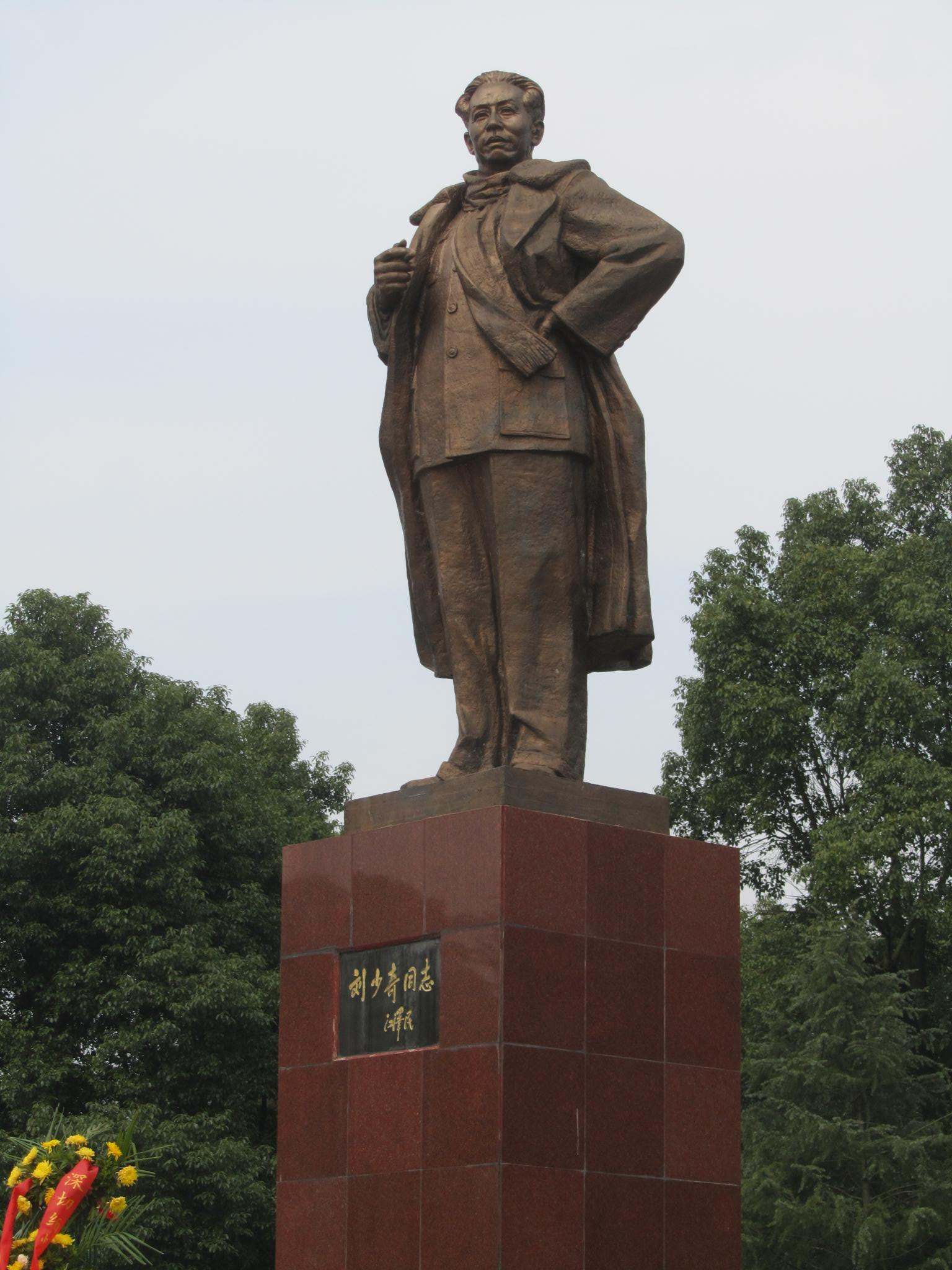 Bronze Statue of Liu Shaoqi in his Former Residence.